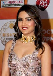 Jasmin Bhasin graces the Zee Rishtey Awards